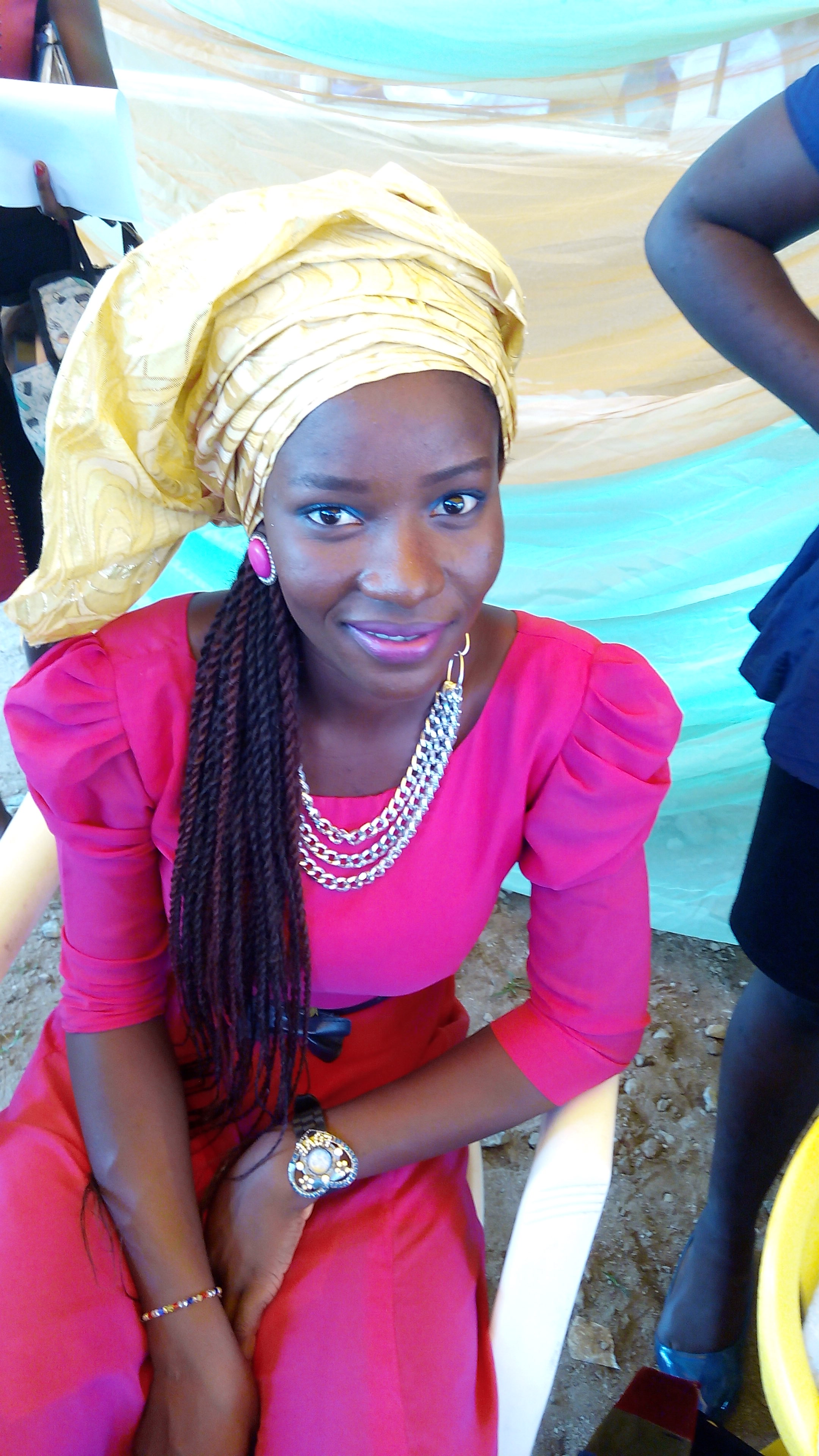 Gele from Nigeria This is an image of Cultural Fashion or Adornment from Nigeria